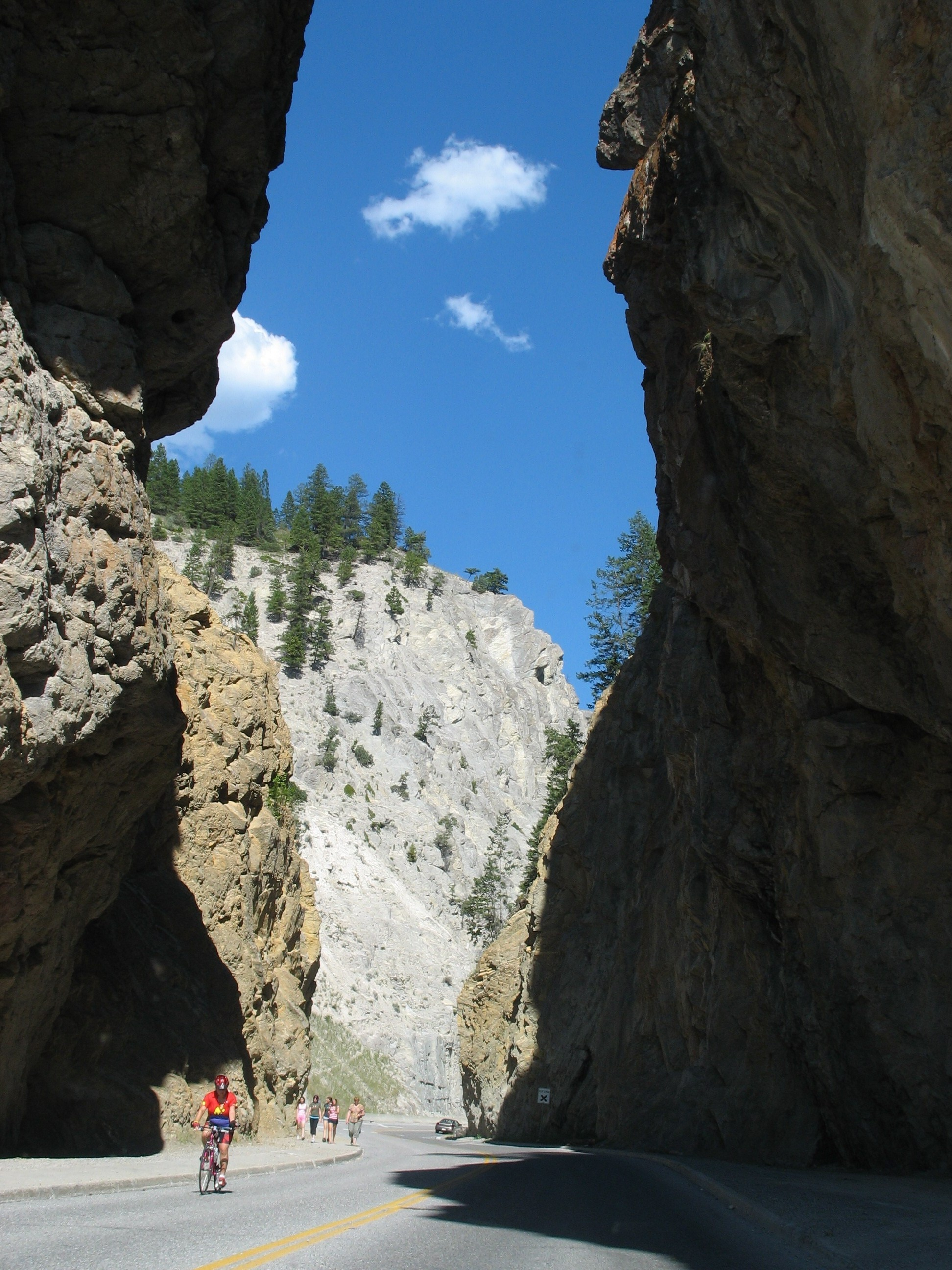 The Entrance to Kootenay National Park.